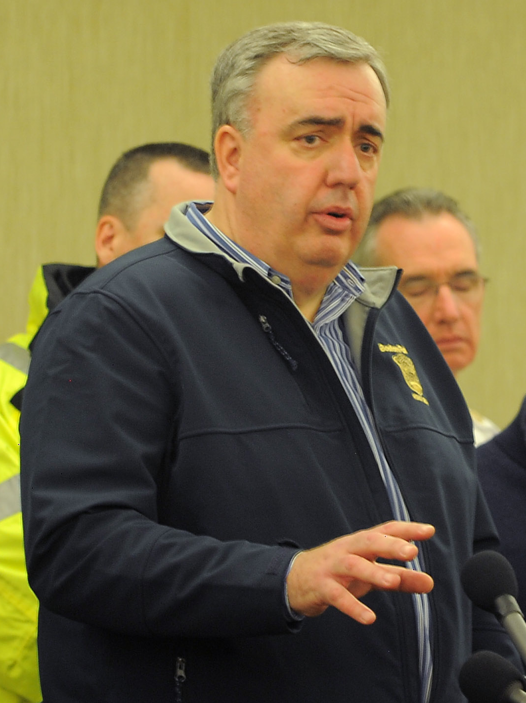 Boston, MA, April 15, 2013: Two explosions went off in Copley Square, directly after the finish line of the Boston Marathon. Boston police commissoner Ed Davis. Photo by: Michael Cummo